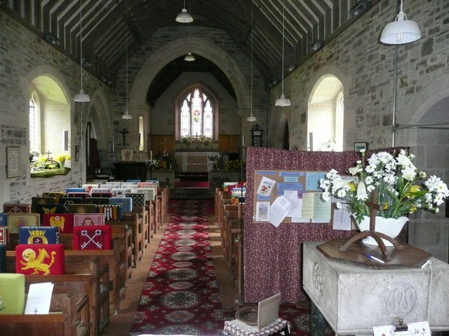 Colourful interior of St. Gwithian's Easter gardens on the sills, flowers on the font, and a multitude of hand-embroidered kneelers.